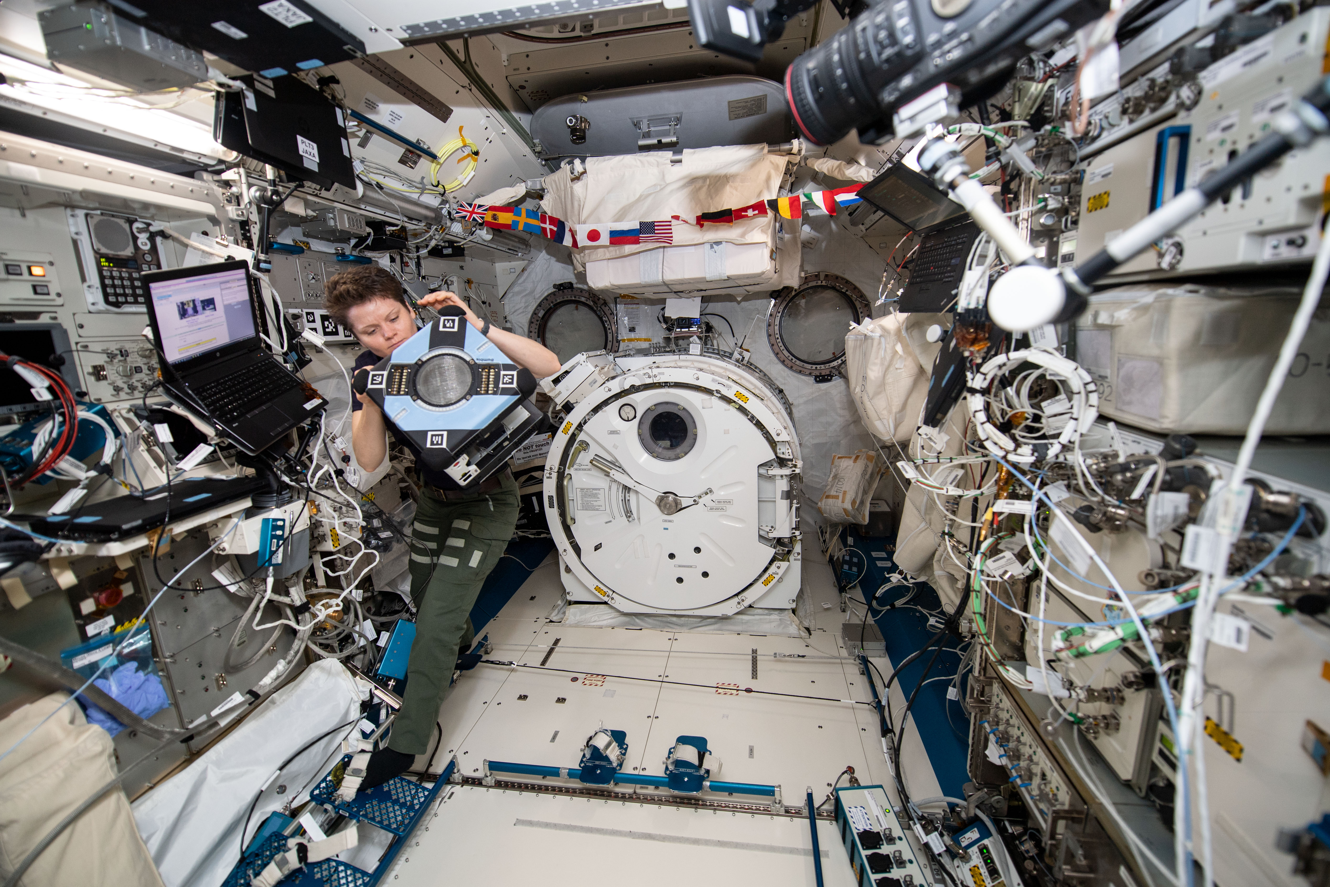 NASA astronaut Anne McClain works inside the Japanese Kibo laboratory module checking out the new Astrobee hardware. The cube-shaped, free-flying robotic assistant could save the crew time performing routine maintenance duties and providing additional lab monitoring capabilities.